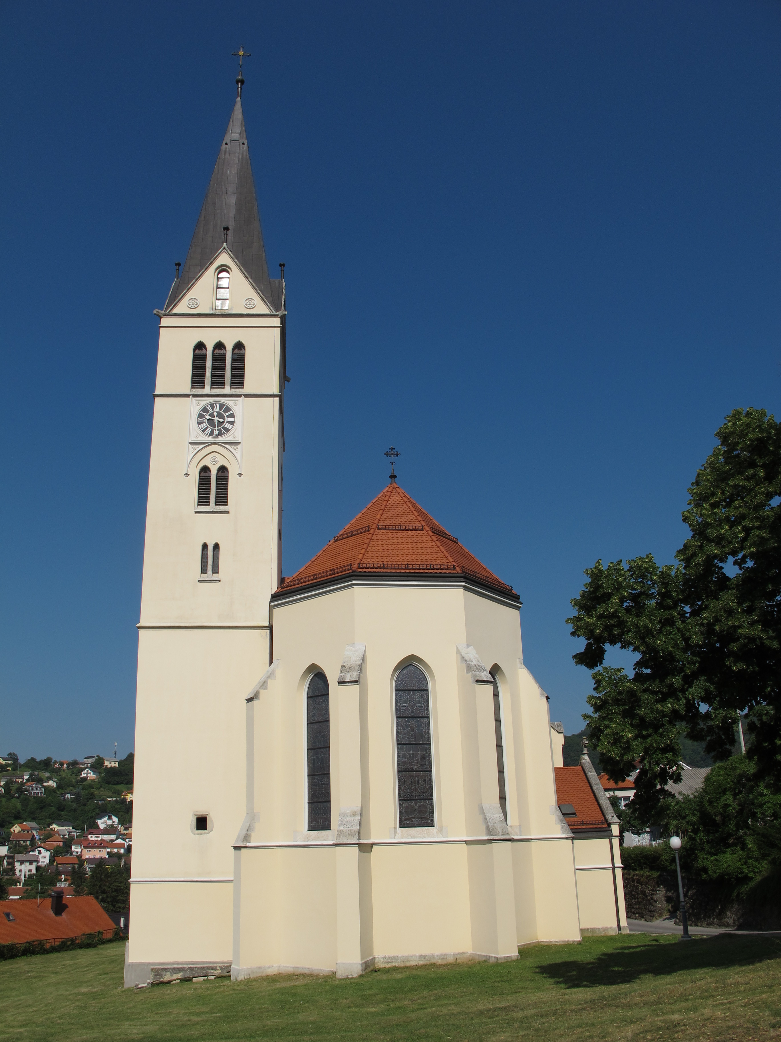 St Nicholas’ Parish Church Krapine